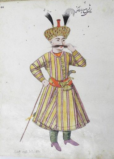 Late 17th-century illustration of a Safavid royal bodyguard.